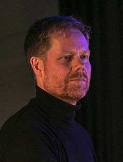 Max Richter performing live at All Tomorrow's Parties Fest in 2015